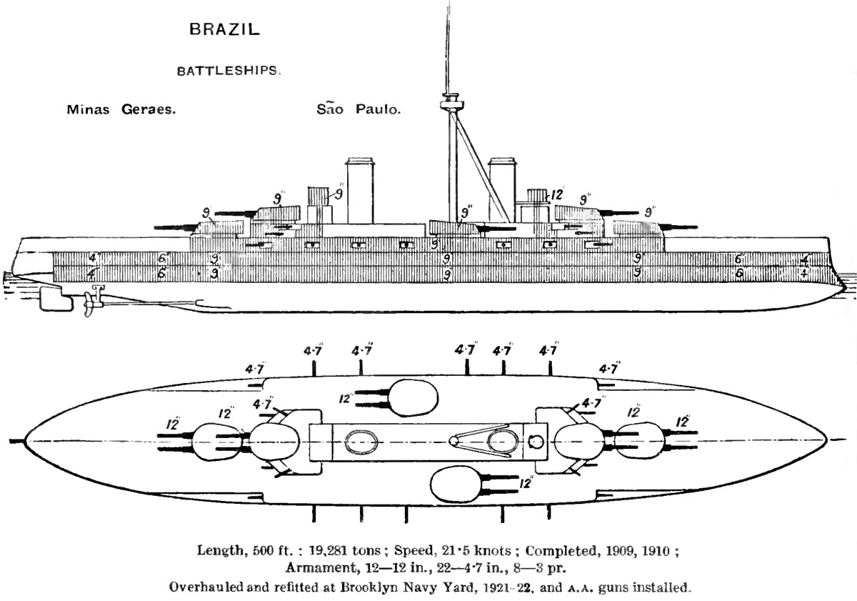 Right elevation and deck plan of Brazilian Minas Gerais class battleship. Numbers on top diagram show armour thickness (shaded areas) in inches. Numbers on bottom diagram show size of guns in inches.